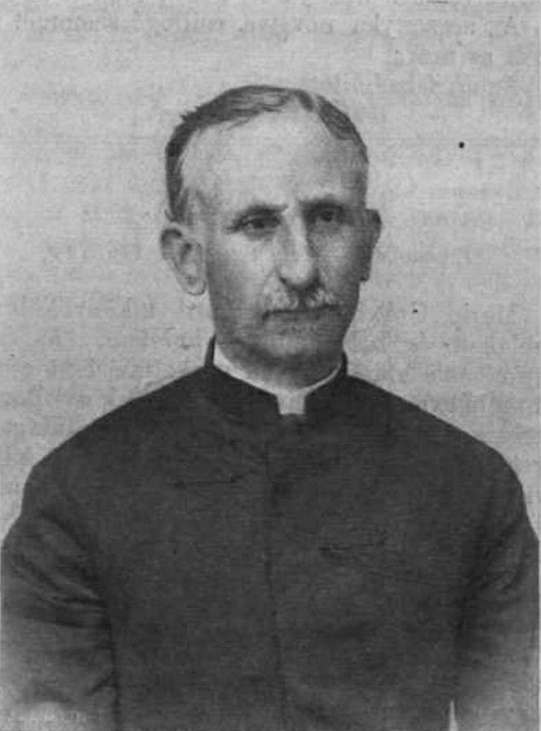 Ferenc Gyurátz